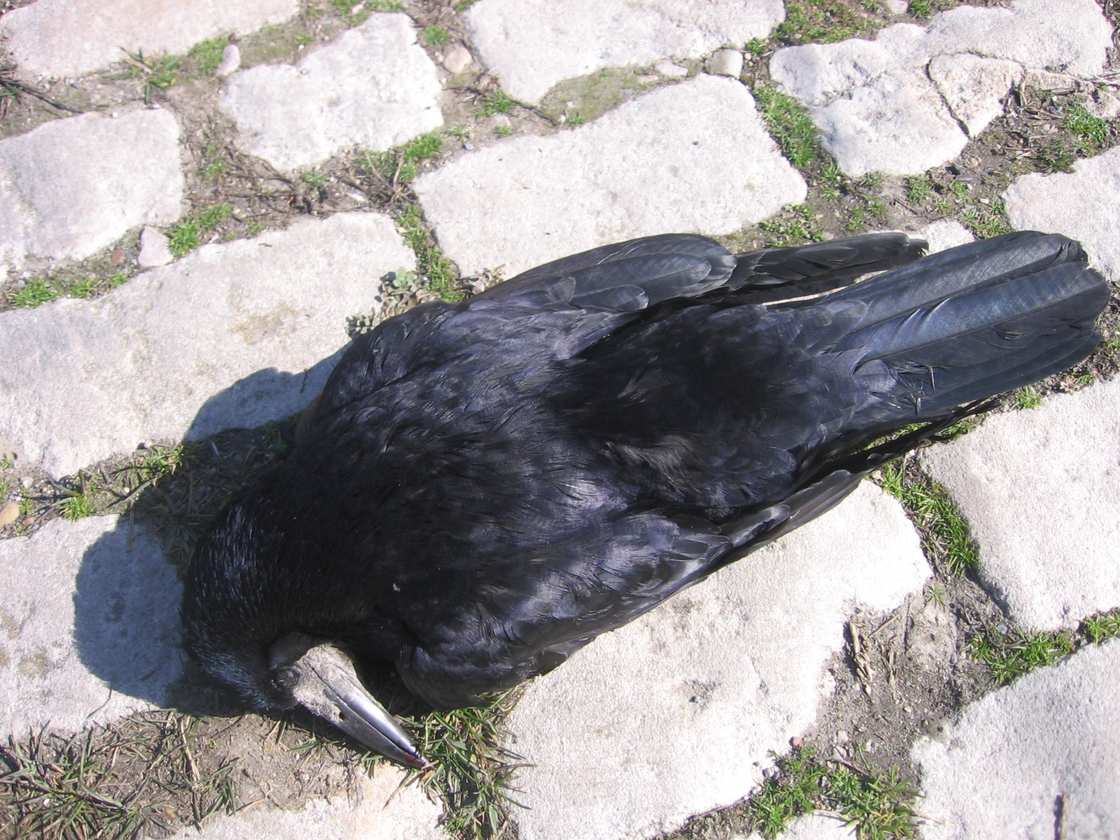 dead rook